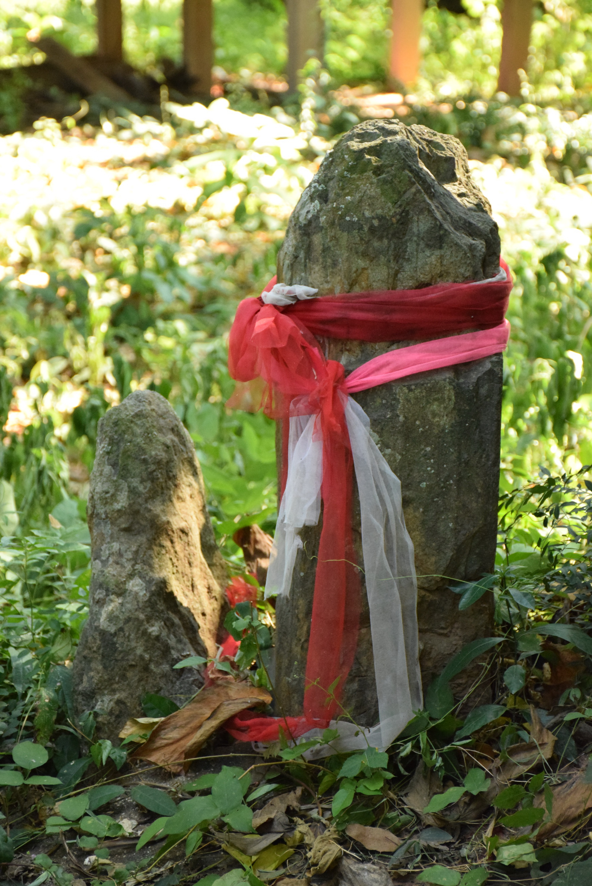 The main stone boundary Siam - Nan หลักประโคน หลักมั่นหลักคงโบราณ เขตแดนสยาม-น่าน